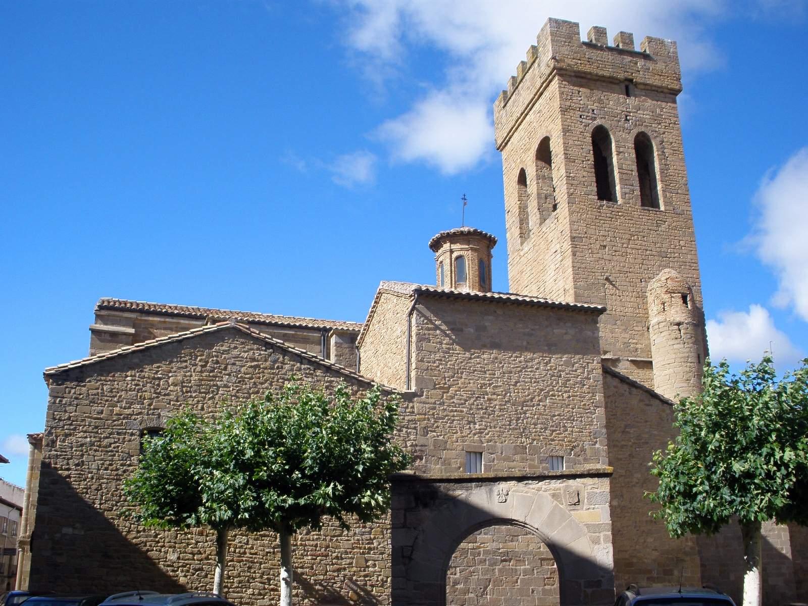 Church of Santiago, Sangüesa